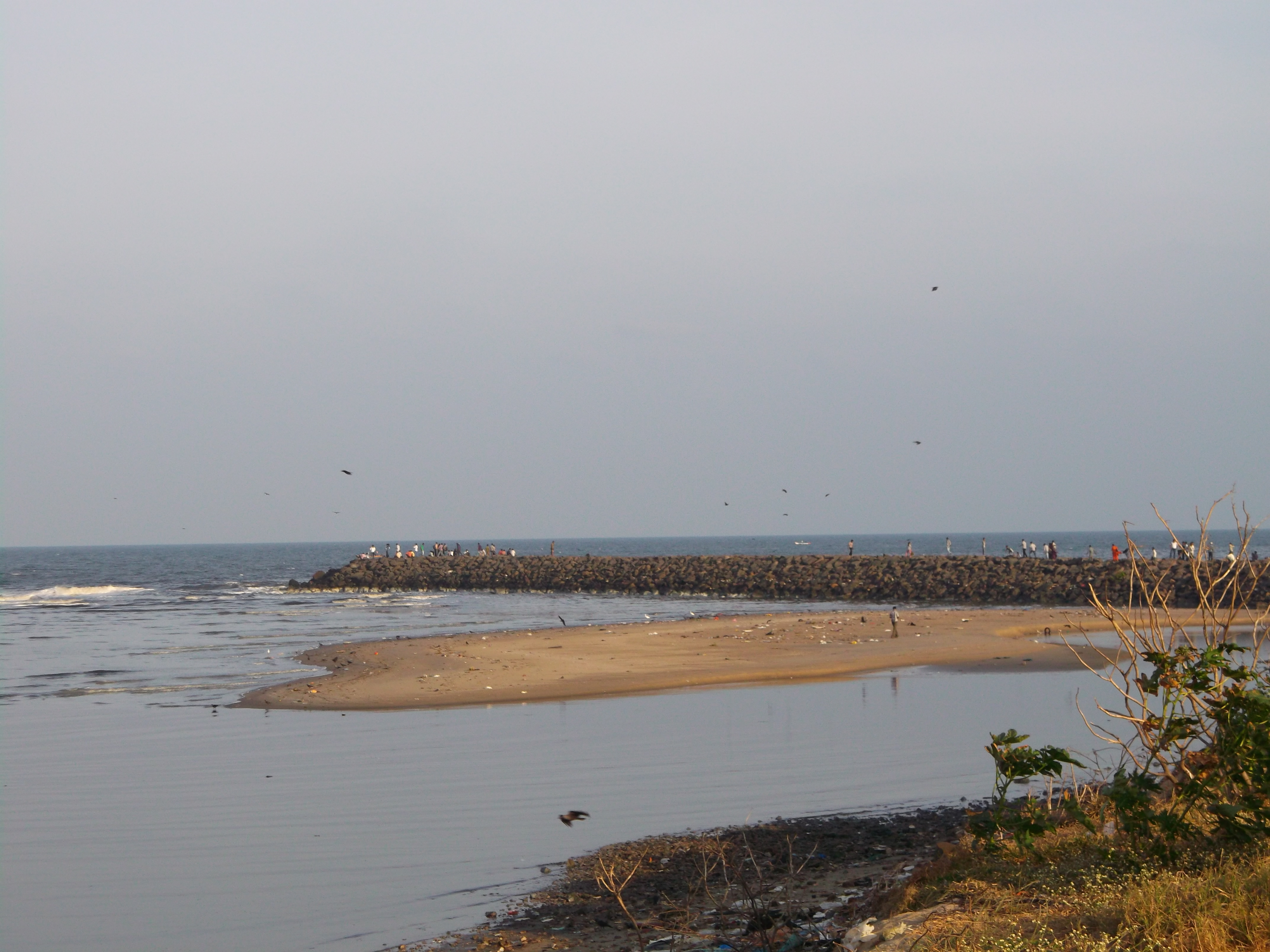 Cooum Delta with sand dunes and tidal barrier, taken on 2-Feb-2013 at 5:20 pm